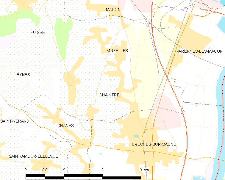 Map of French municipality